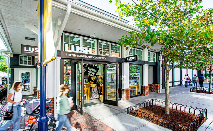 LUSH Handmade Cosmetics